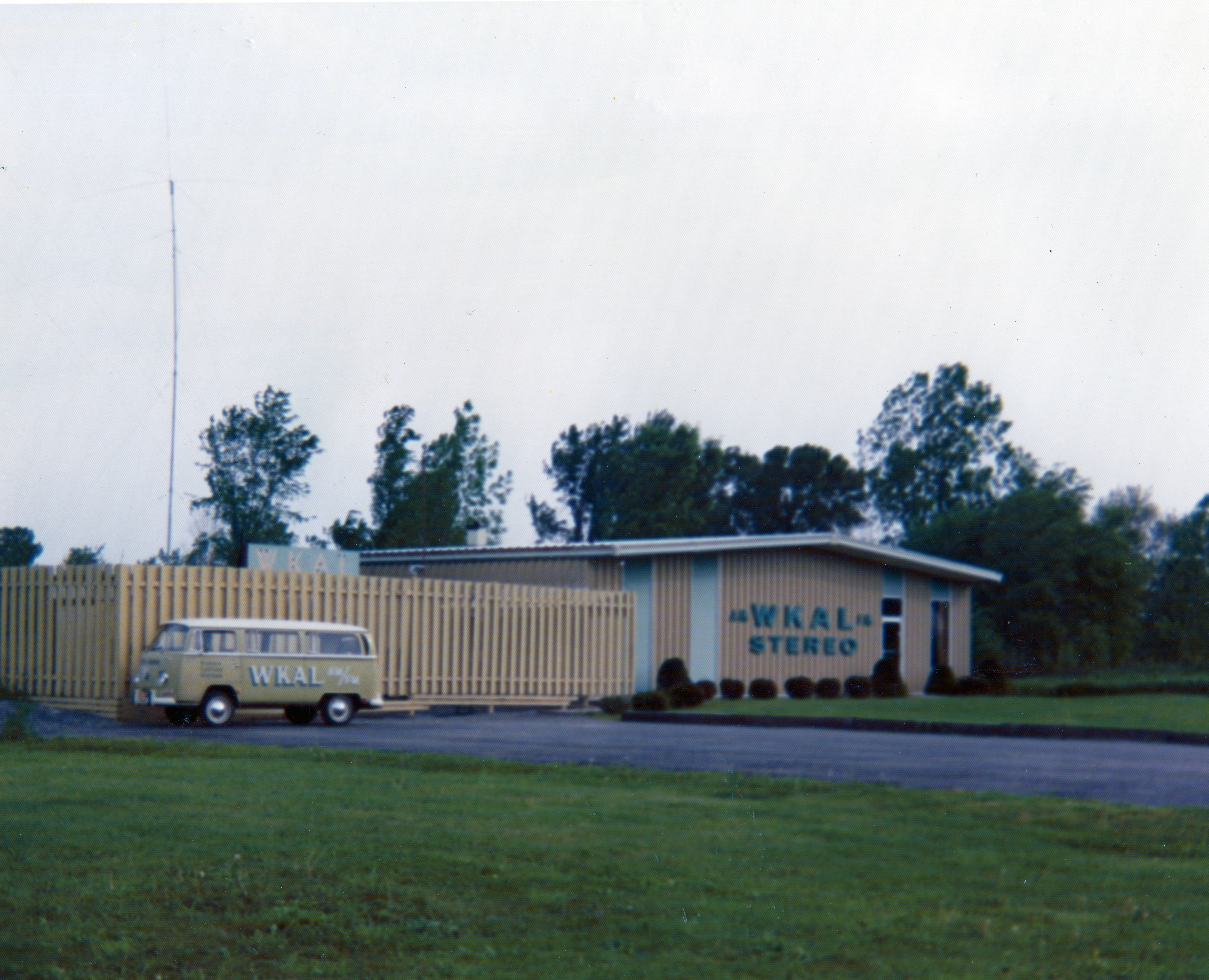 The combined WKAL studio and transmitter facility, South Jay Street,Rome, NY; Spring of 1974. During the previous year, FM Stereo service had been initiated, simulcasting AM programming. The station's building markings were updated to advertise the change. To the left the station's VW Bus can be seen which was utilized during this period for promotional events.